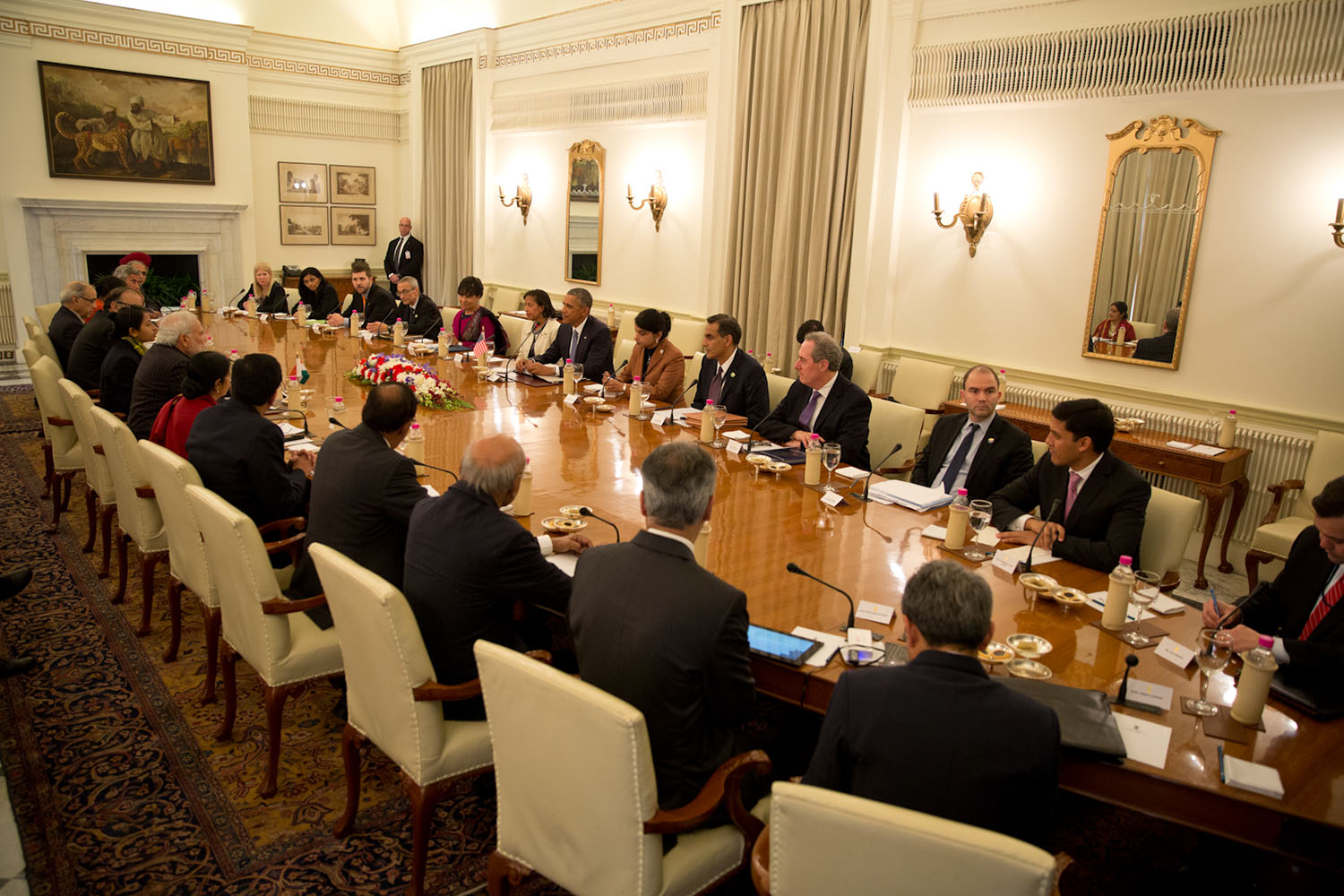 President Obama and Prime Minister Modi participate in an expanded bilateral meeting at Hyderabad House in New Delhi.